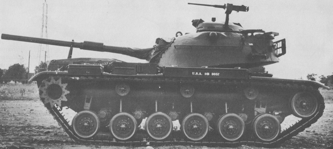 M60 pilot number 1 after completion by Chrysler on 2 July 1959. Note the use of a pedistol mounted M2HB machine gun on the cupola. The cupola was removed before it was sent to Aberdeen Proving Grounds.